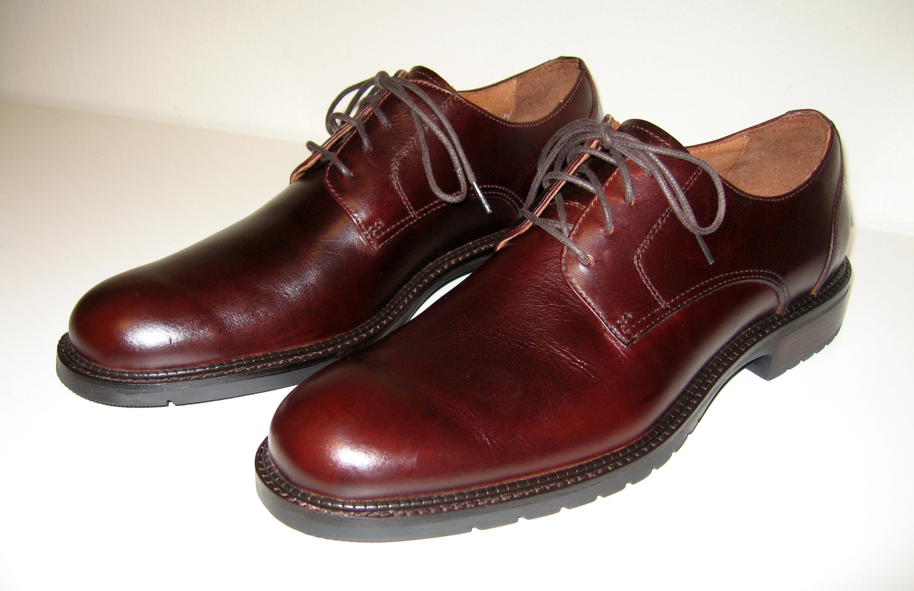 Men's Johnston & Murphy brand, derby style, brown, oil finish leather dress shoes with a single piece vamp and a heel cap